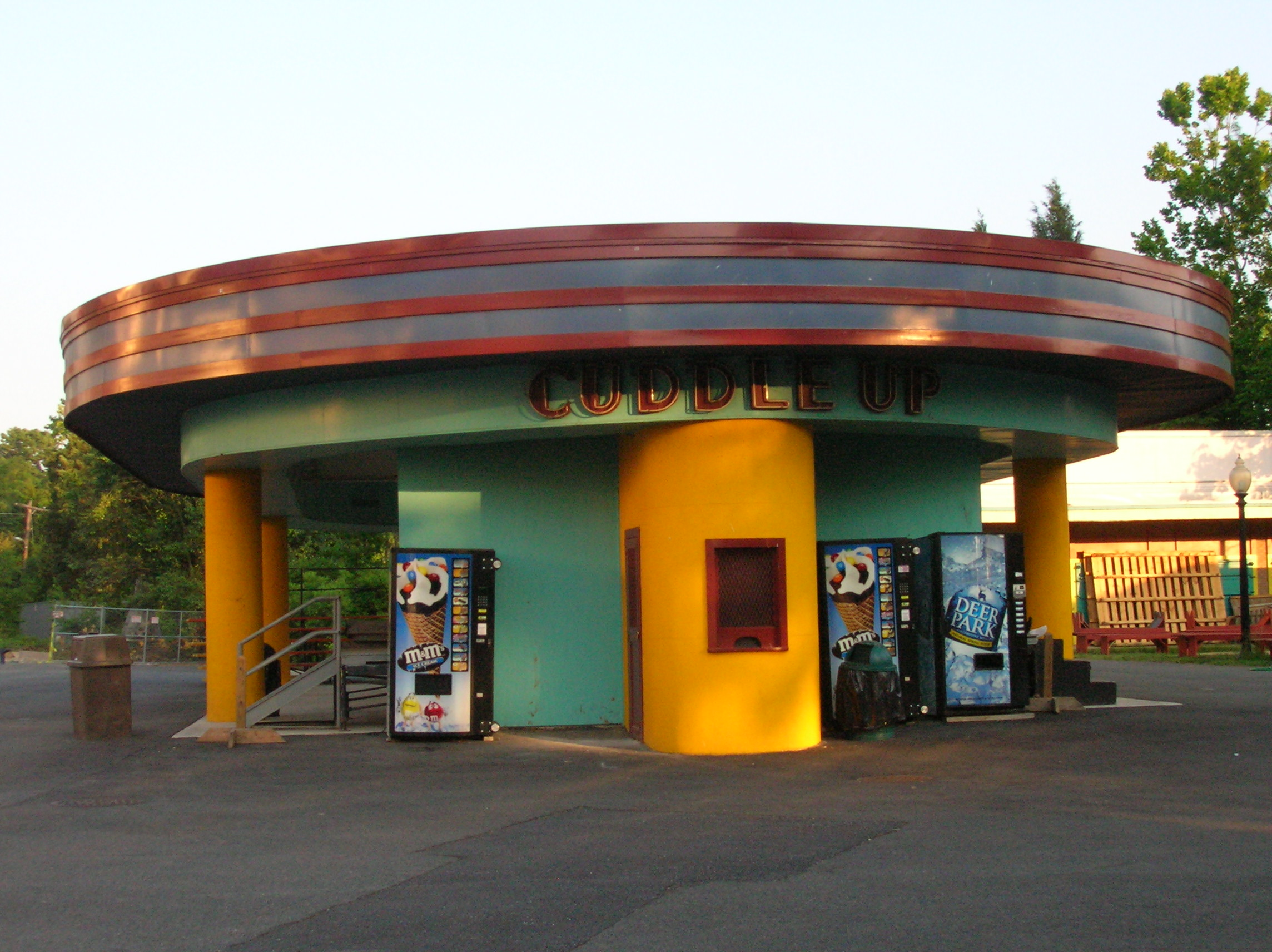 The Cuddle Up in Glen Echo Park, Glen Echo, Maryland, U.S.A. The Cuddle Up is a small stage space in the park. Photograph taken in 2006 by Kenneth Mayer. I am the author and I put this picture in the public domain.